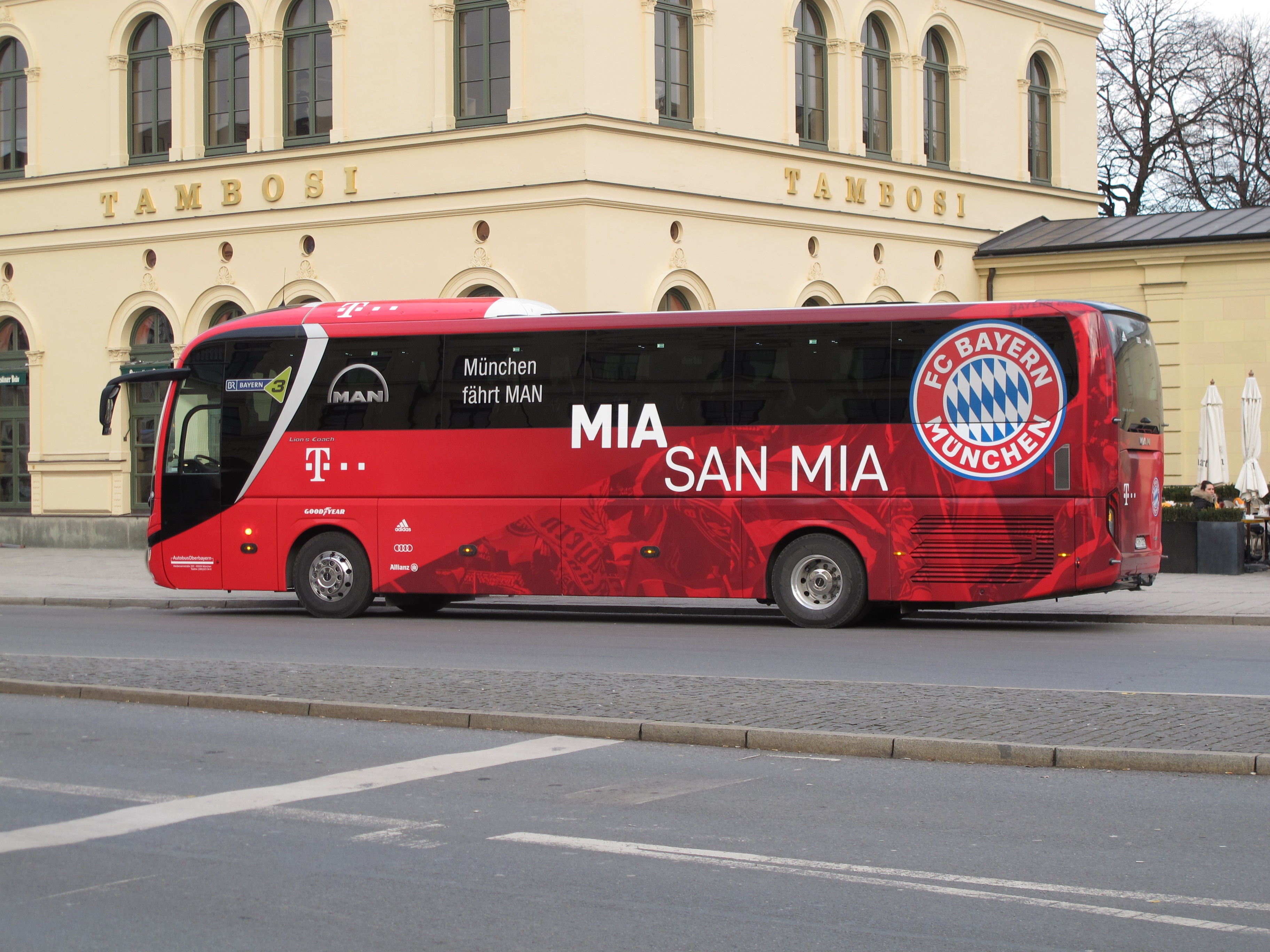 Munich - MAN Lion's Coach in Odeonsplatz